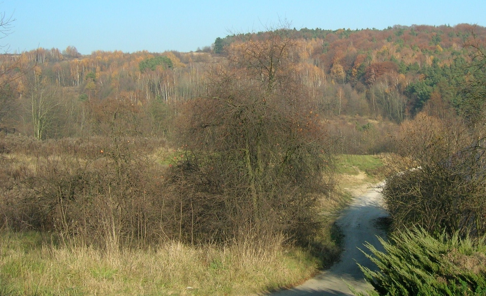 Bartlówka